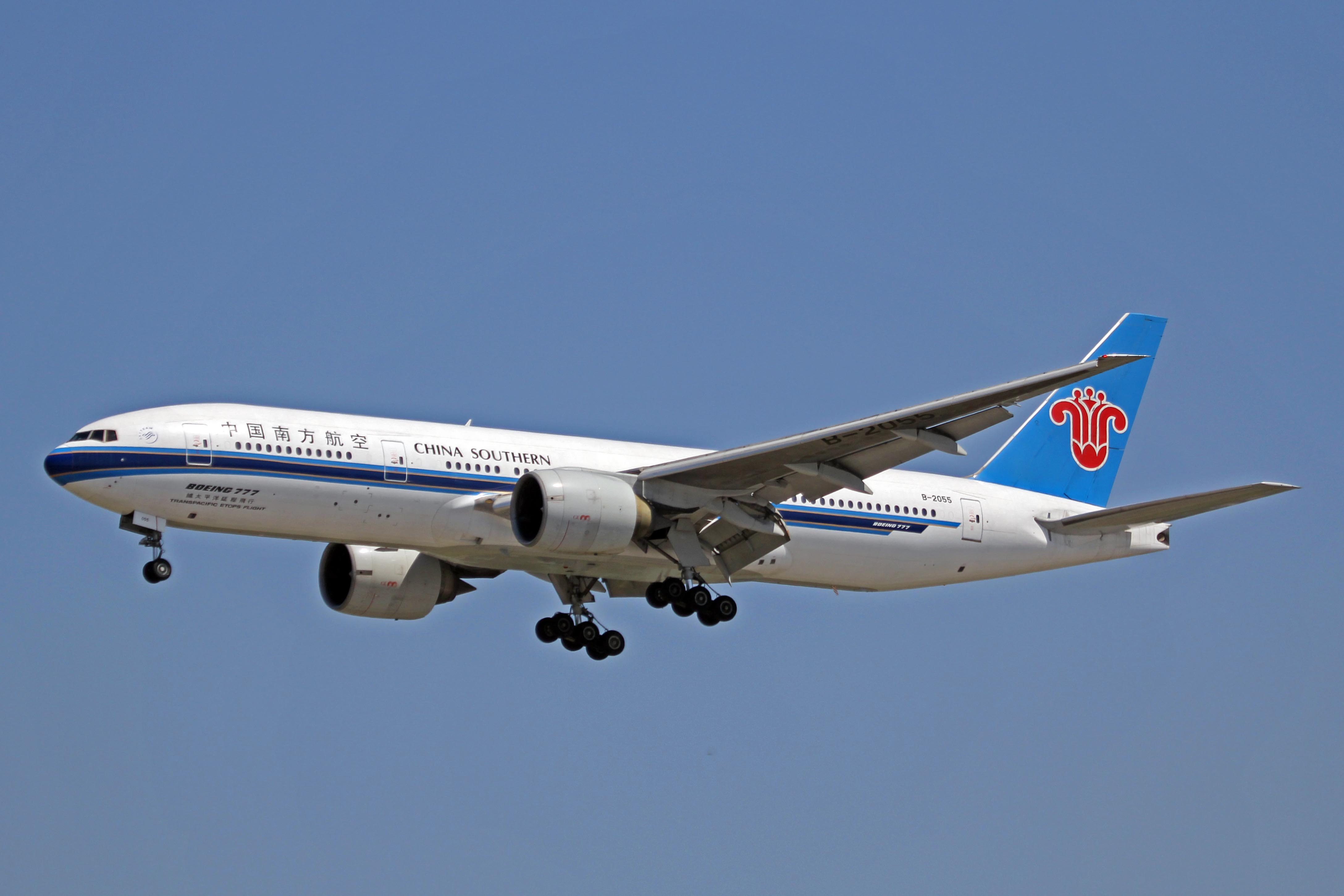 The first Boeing 777-200ER for China was the first mainland Chinese aircraft to land legally at Taiwan.